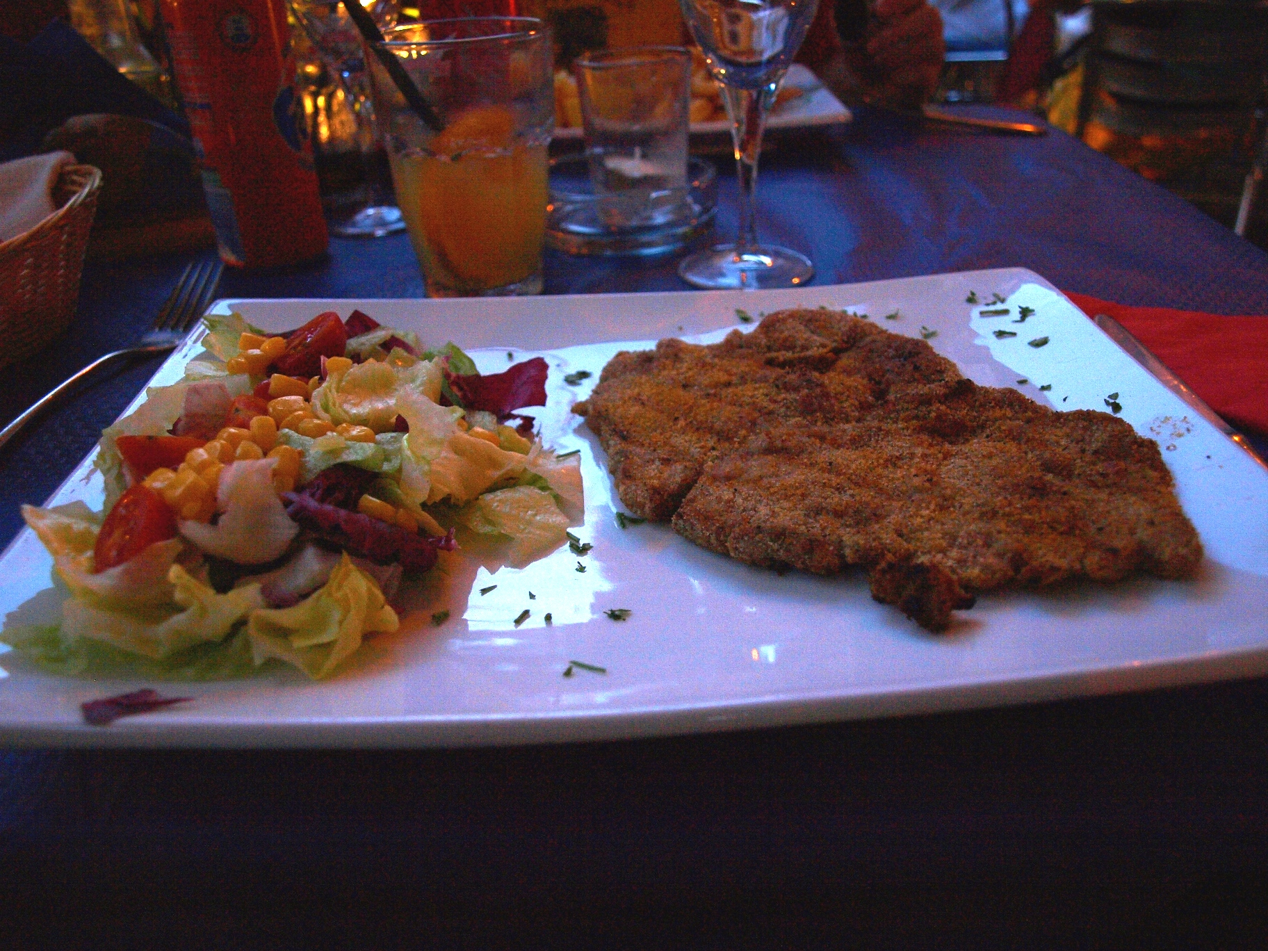 Bistecca alla palermitana, a sicilian dish from Palermo, photographed in Palermo.